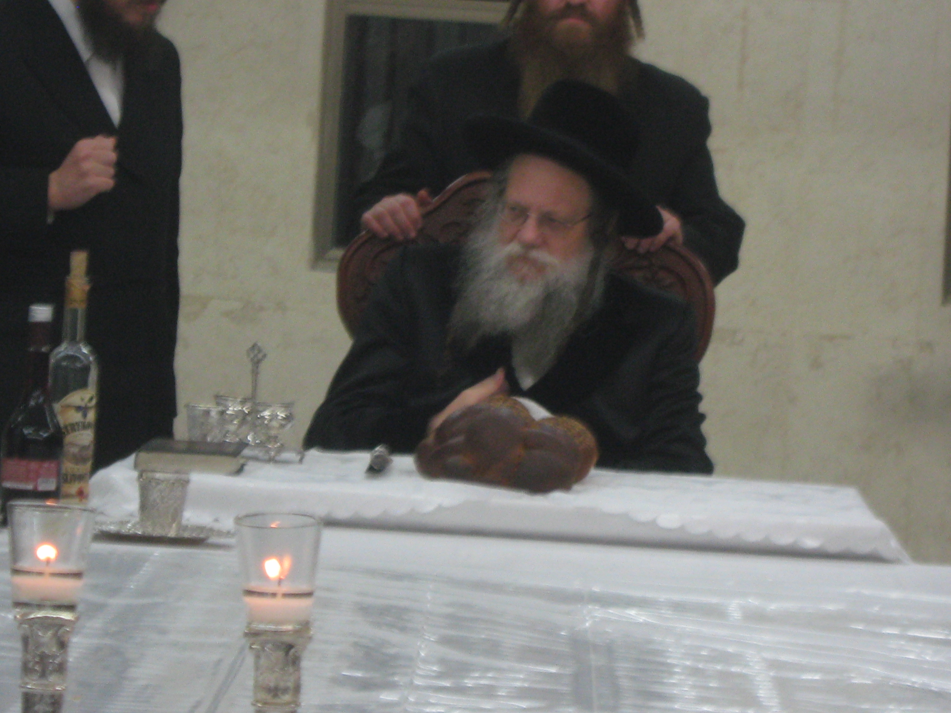 hadmur mudz'its, Events in Israel